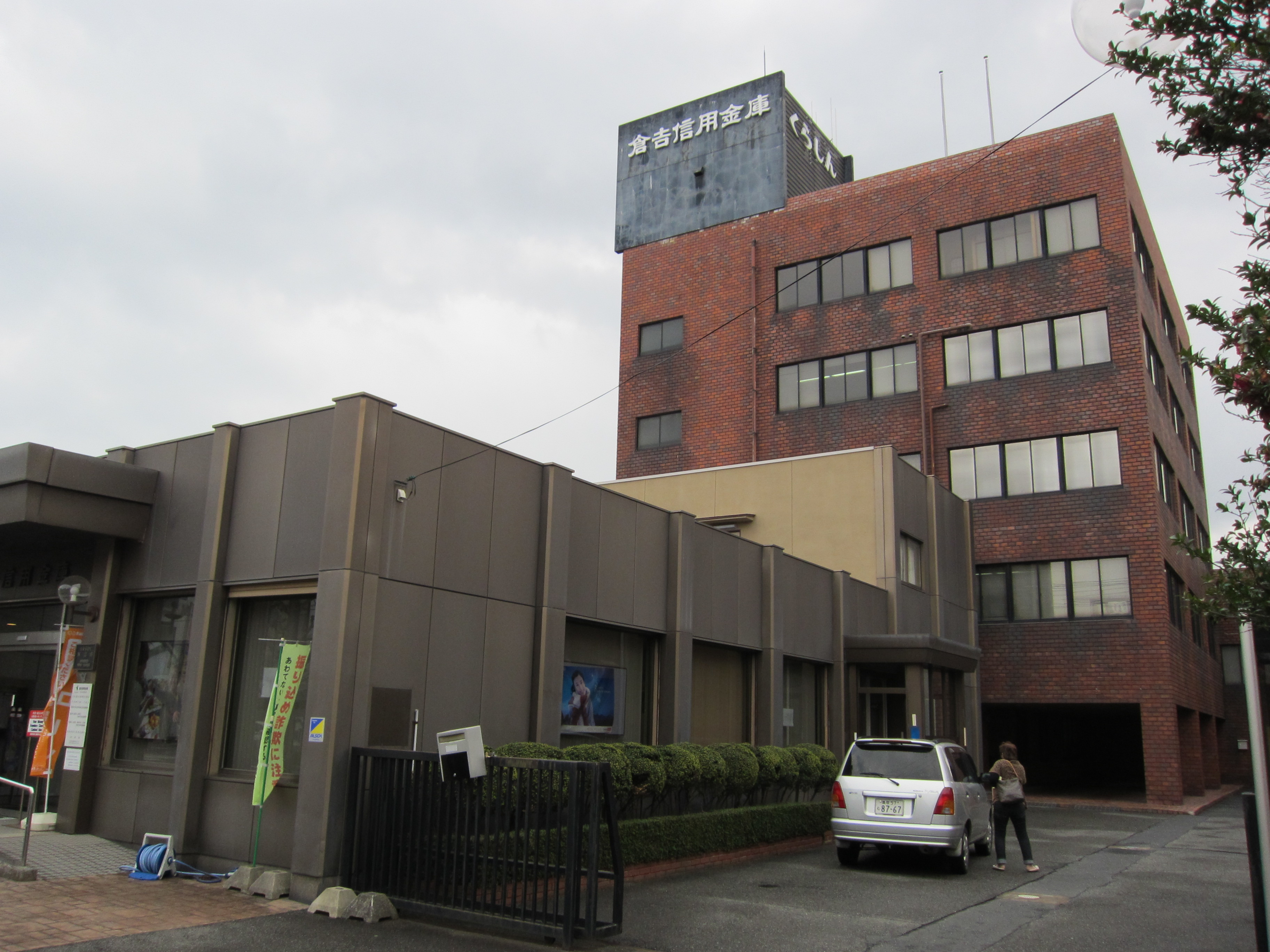 Kurayoshi Sinkin Bank